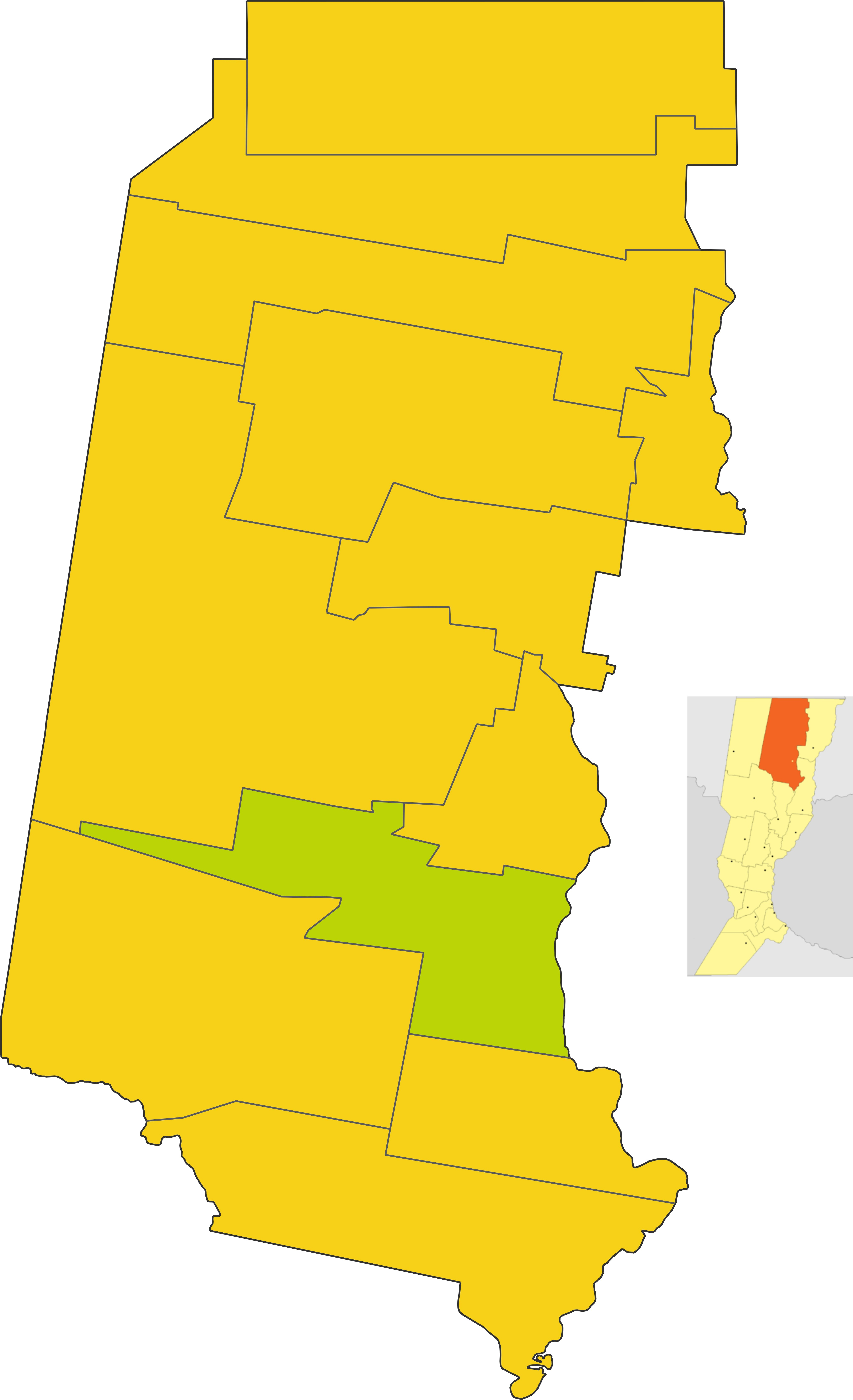 Map of the municipio de Vera in Vera department, Santa Fe province, Argentina